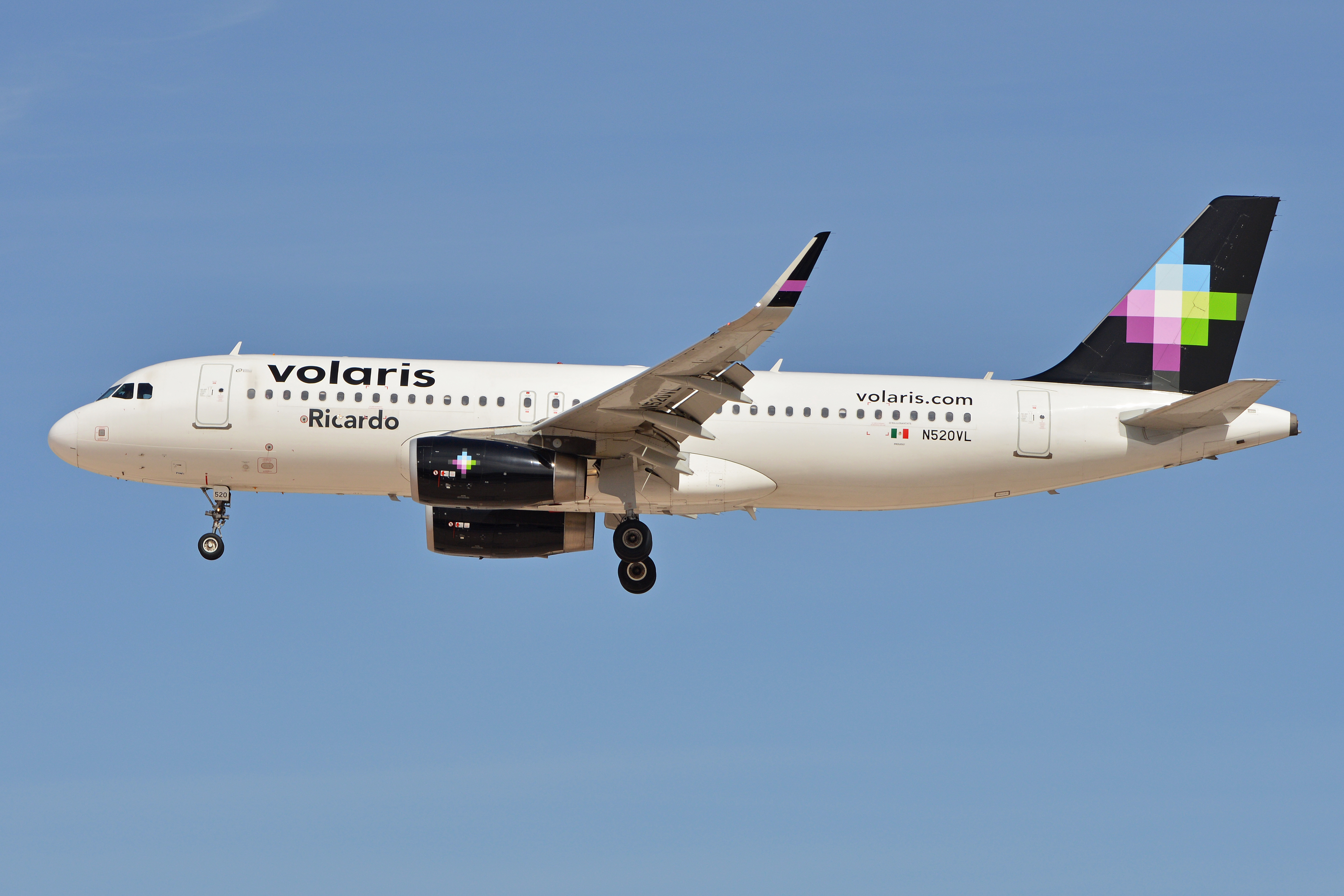 c/n 5595. Built 2013. Seen arriving on flight VOI966 from Mexico City. McCarran International Airport, Las Vegas, NV, USA. 2nd March 2016.